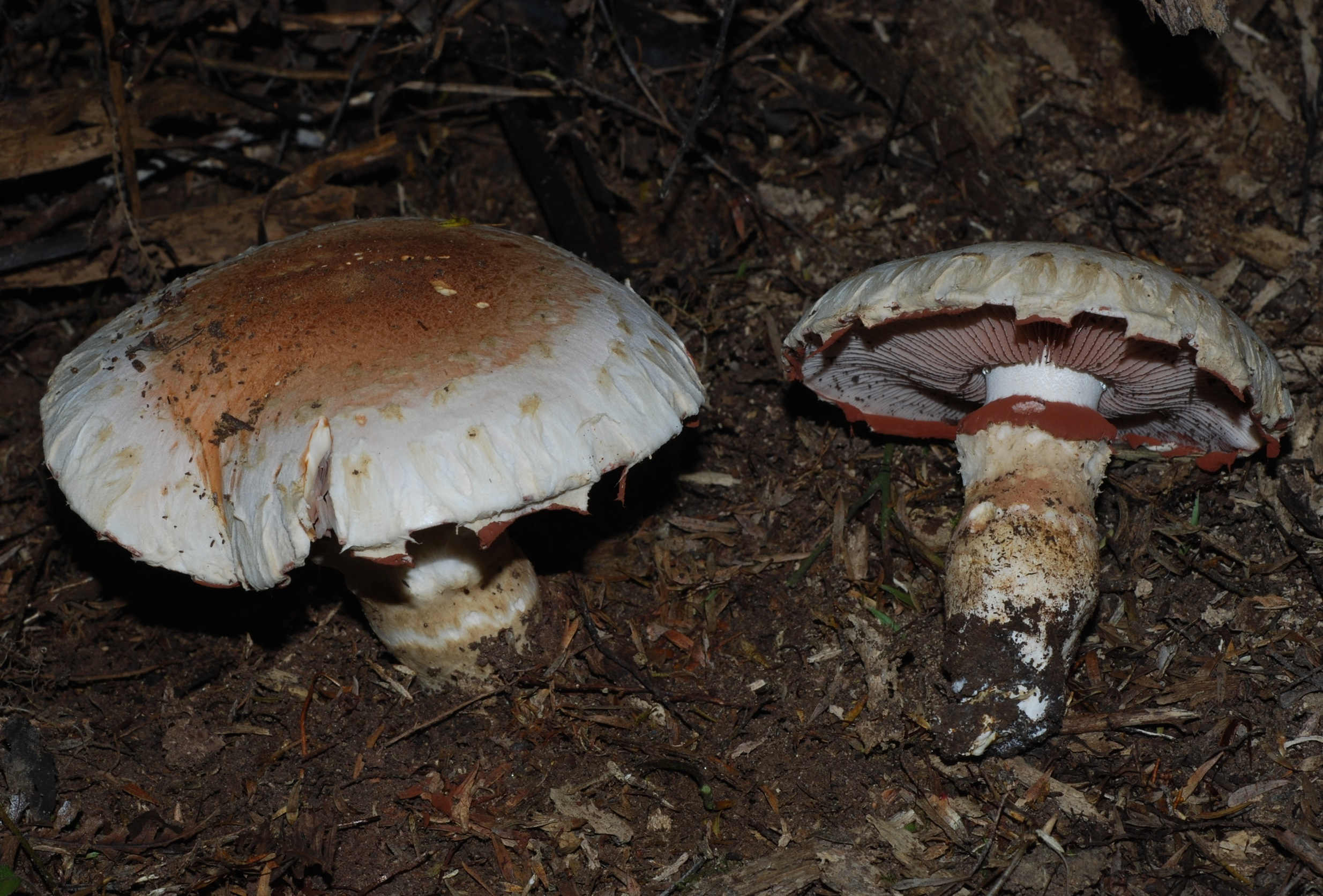 Hebeloma victoriense (A.A. Holland & Pegler) Location: Kaipara harbour, Auckland, New Zealand. Notes: Found in leaf litter under Dacrycarpus dacrydioides and Leptospermum scoparium in native New Zealand forest.Mild fragrance, similar to apricots!